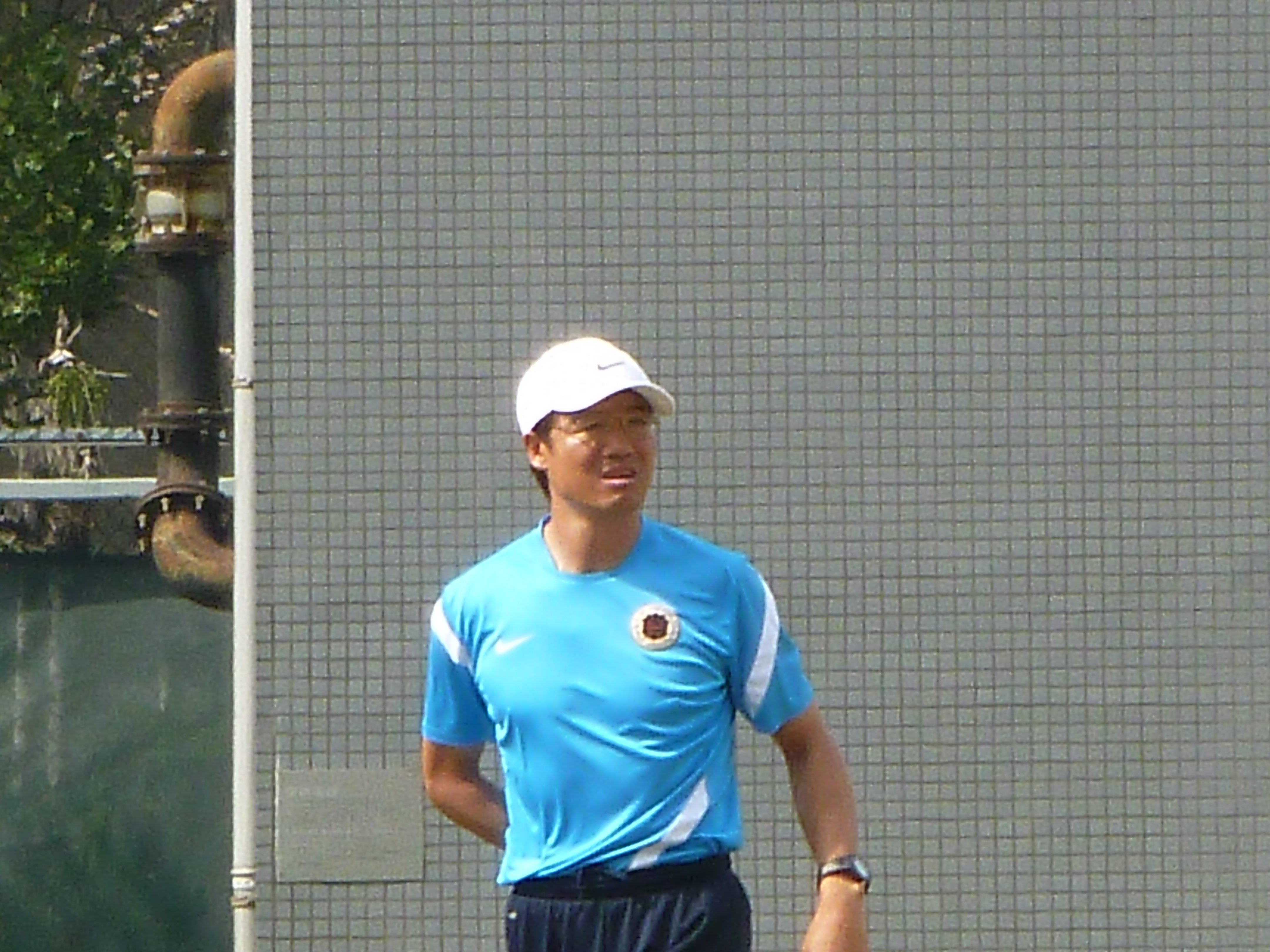 Kim Pan-Gon (Hong Kong National Football Team training session; 7 Nov 2012; Kowloon Bay Park, 11 Kai Lai Road, Kowloon Bay, Kowloon, Hong Kong) 中文（香港）: 金判坤 (7 Nov 2012, 香港九龍九龍灣啟禮道11號九龍灣公園, 港隊訓練)